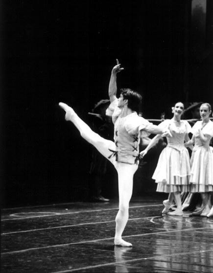 Giselle